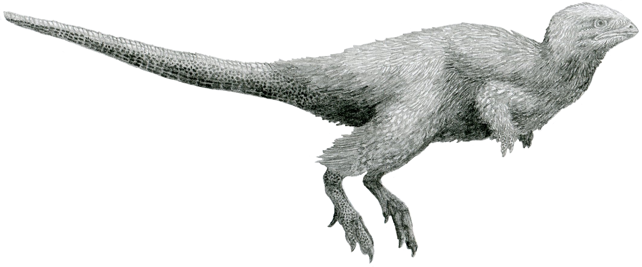 Feathered ornithischian Kulindadromeus zabaikalicus.